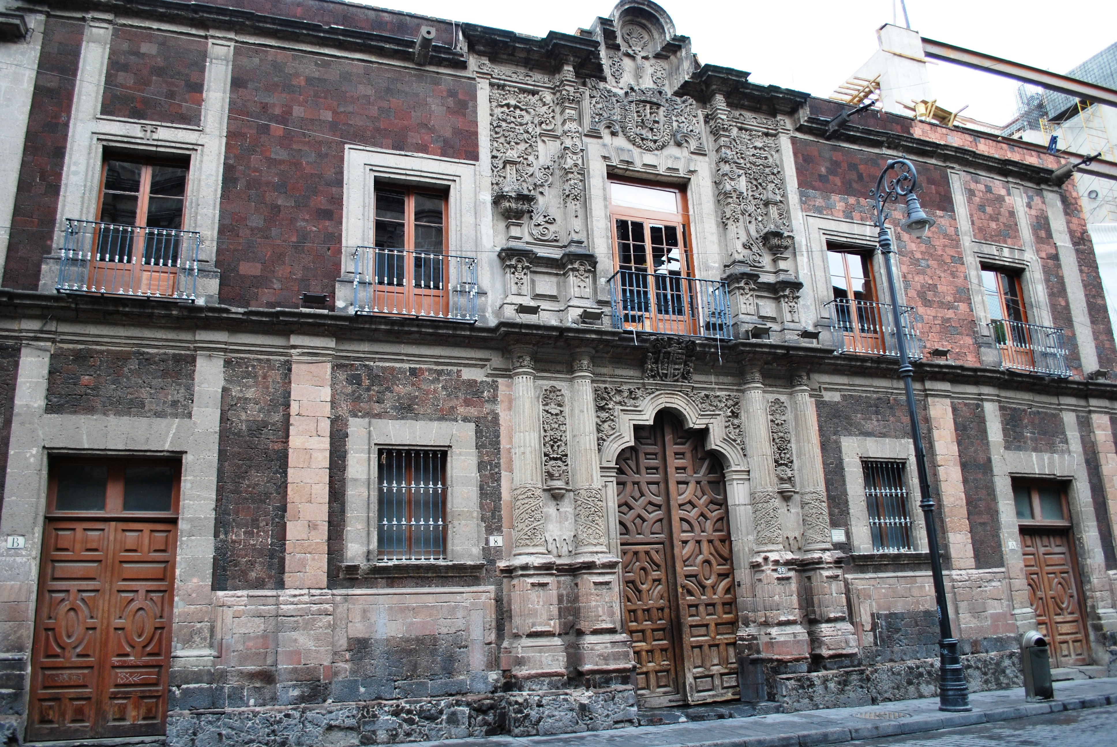 Facade of the Caricature Museum, formerly Cristo College, in the historic center of Mexico City